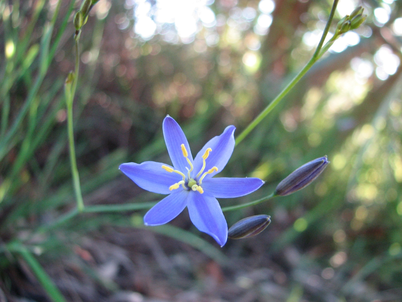 Thelionema caespitosum, Langwarrin Flora and Fauna Reserve, Victoria, Australia